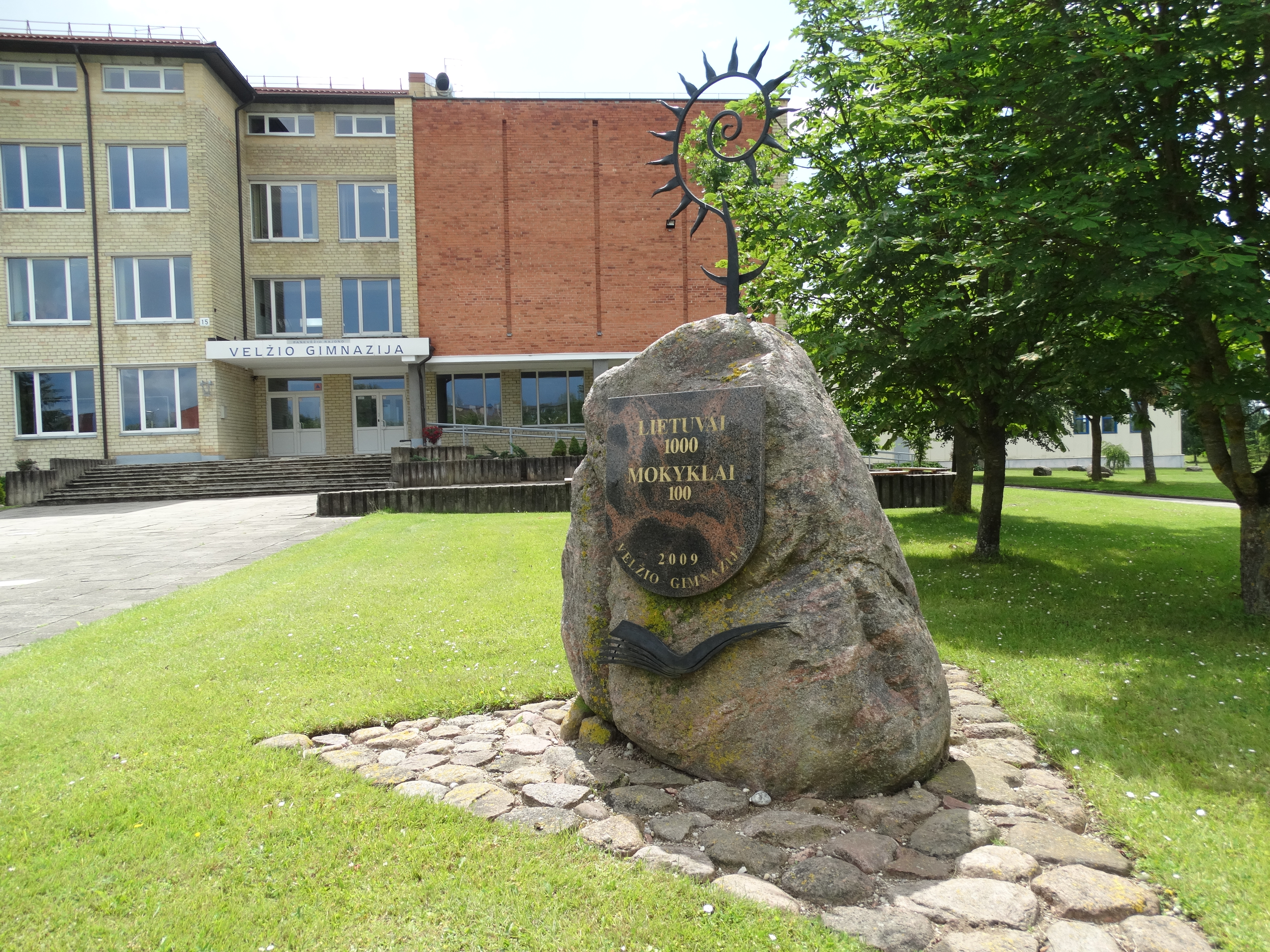 Gymnasium memorial stone, Velžys, Panevėžys District, Lithuania